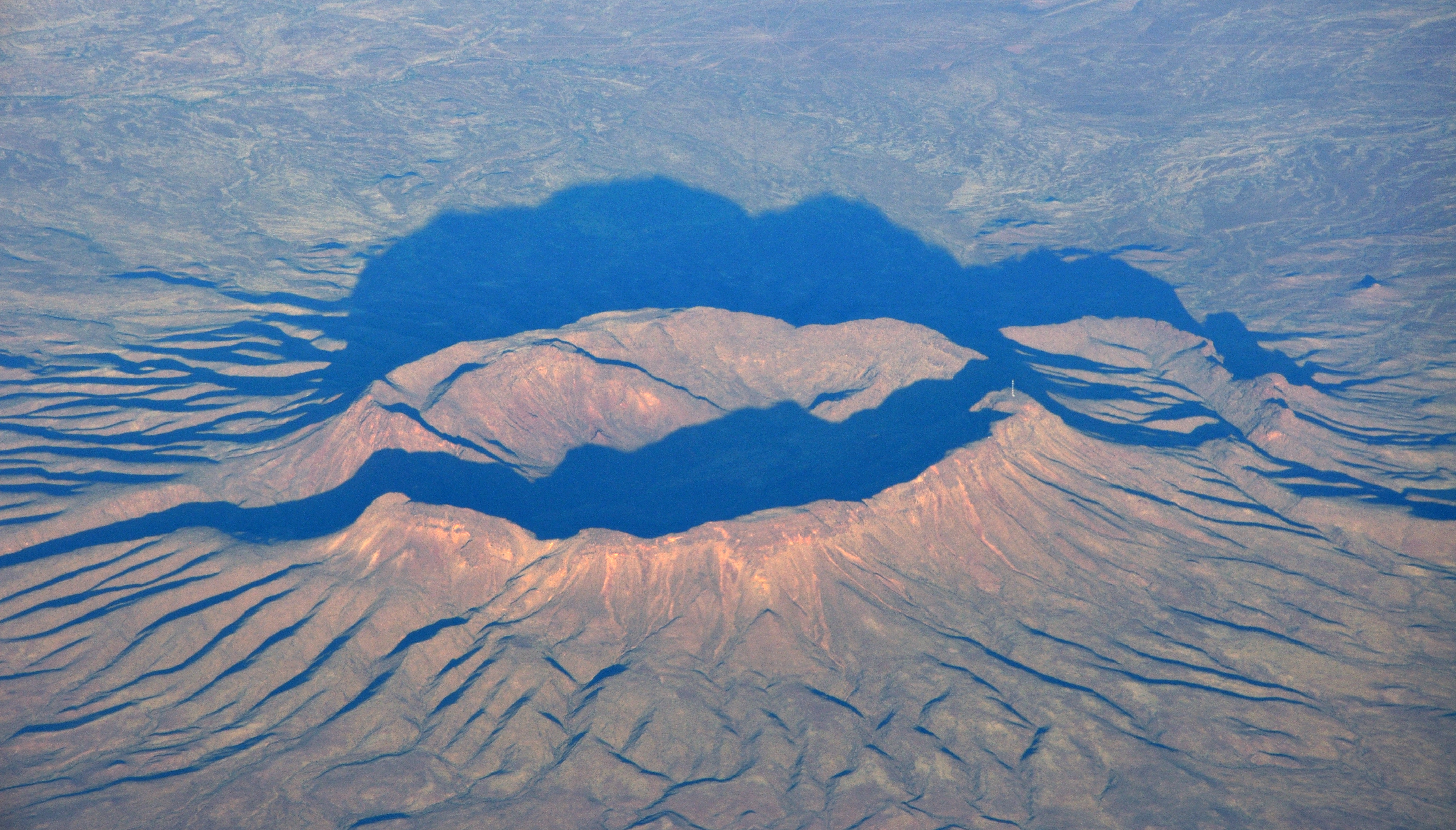 Namibia, early morning flight from Windhoek to Cape Town